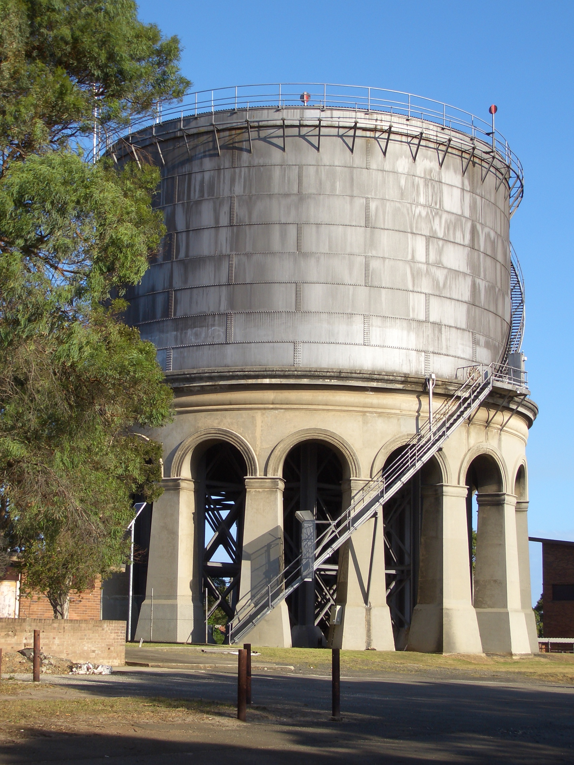 Ashbury water reservoir, Peace Park